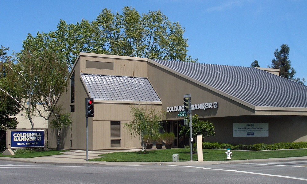 A Coldwell Banker office in Sunnyvale.